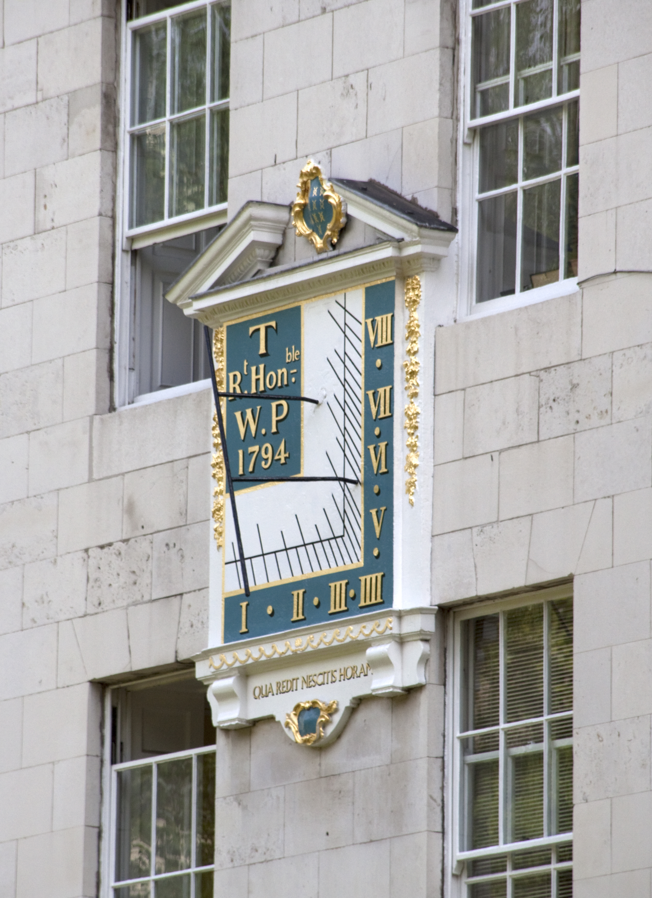 Sundial in Lincoln's Inn, London